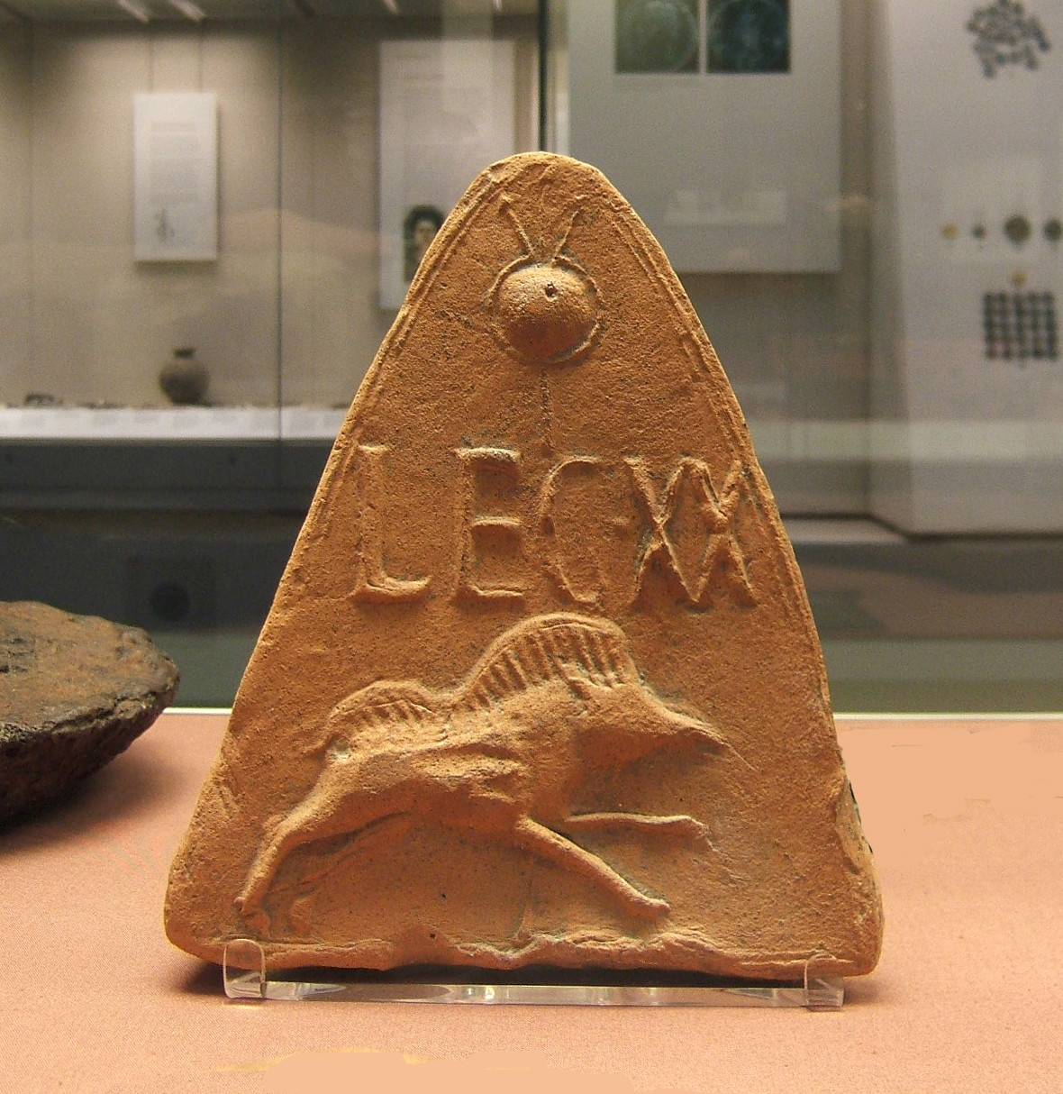 Tile antefix with the name of Legion XX and a boar, the legionary symbol, from Holt, Clwyd, Wales. 2nd - 3rd century AD. British Museum, London. Registration number PE 1911,0206.1